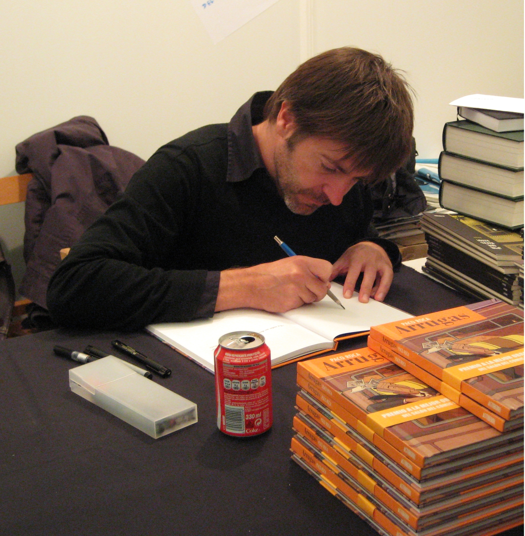 Paco Roca at Astiberri publishing company's stand in Getxo comic con in 2008.